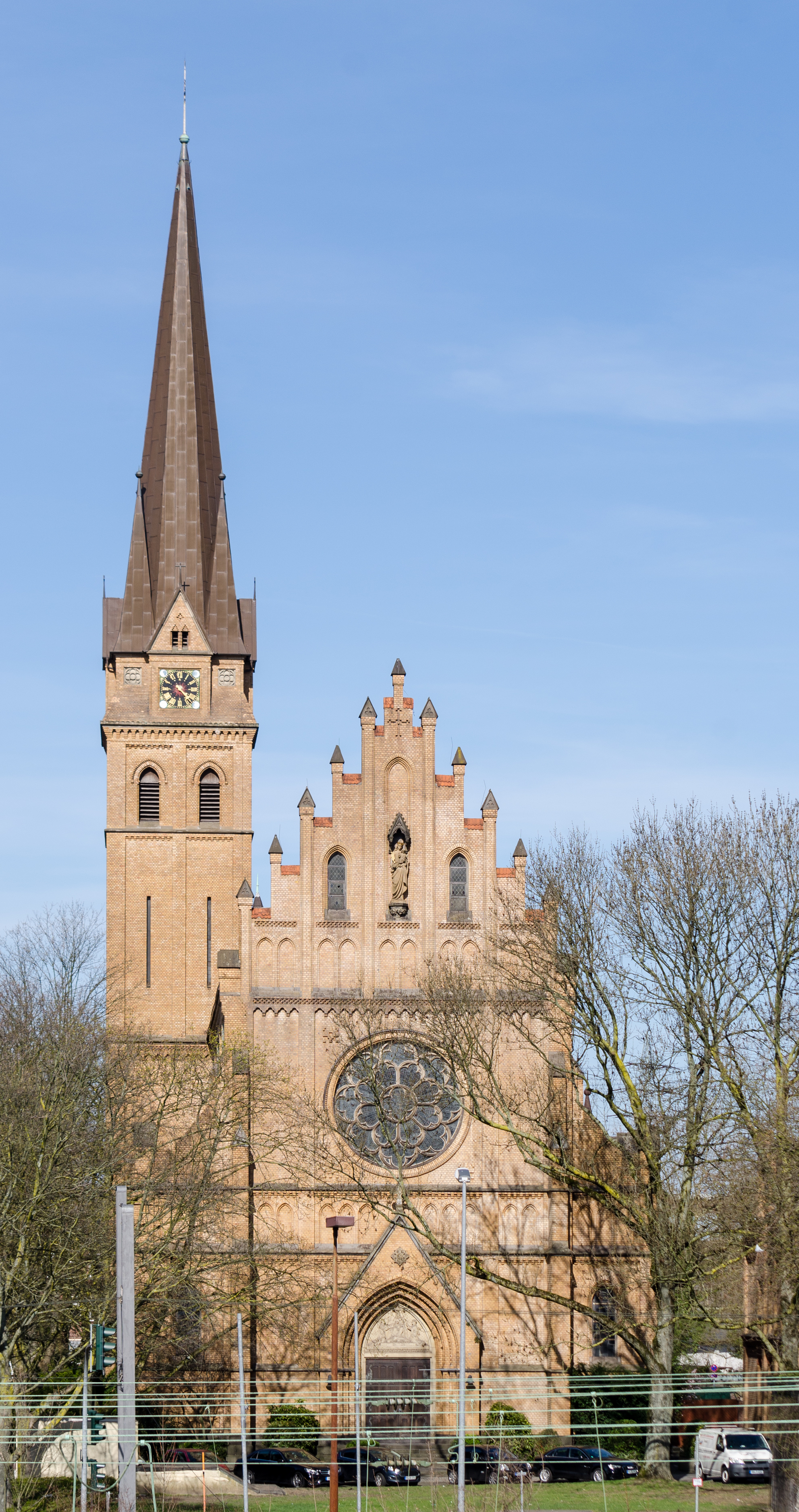 Mülheim (North Rhine-Westphalia, Germany) – district Styrum – Catholic Saint Mary Rosary Church – southwest view